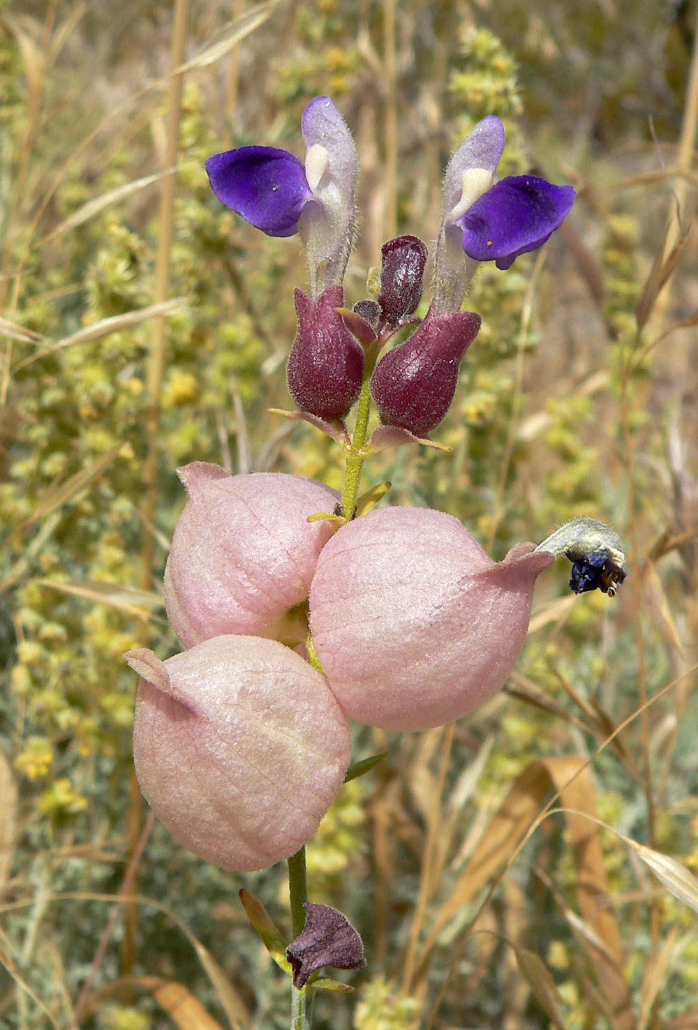 Photo of Salazaria mexicana on hillside west of Las Vegas, Nevada, just outside Red Rock Canyon